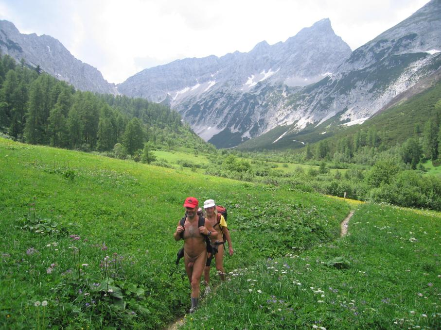 Nude hiking in Austria.